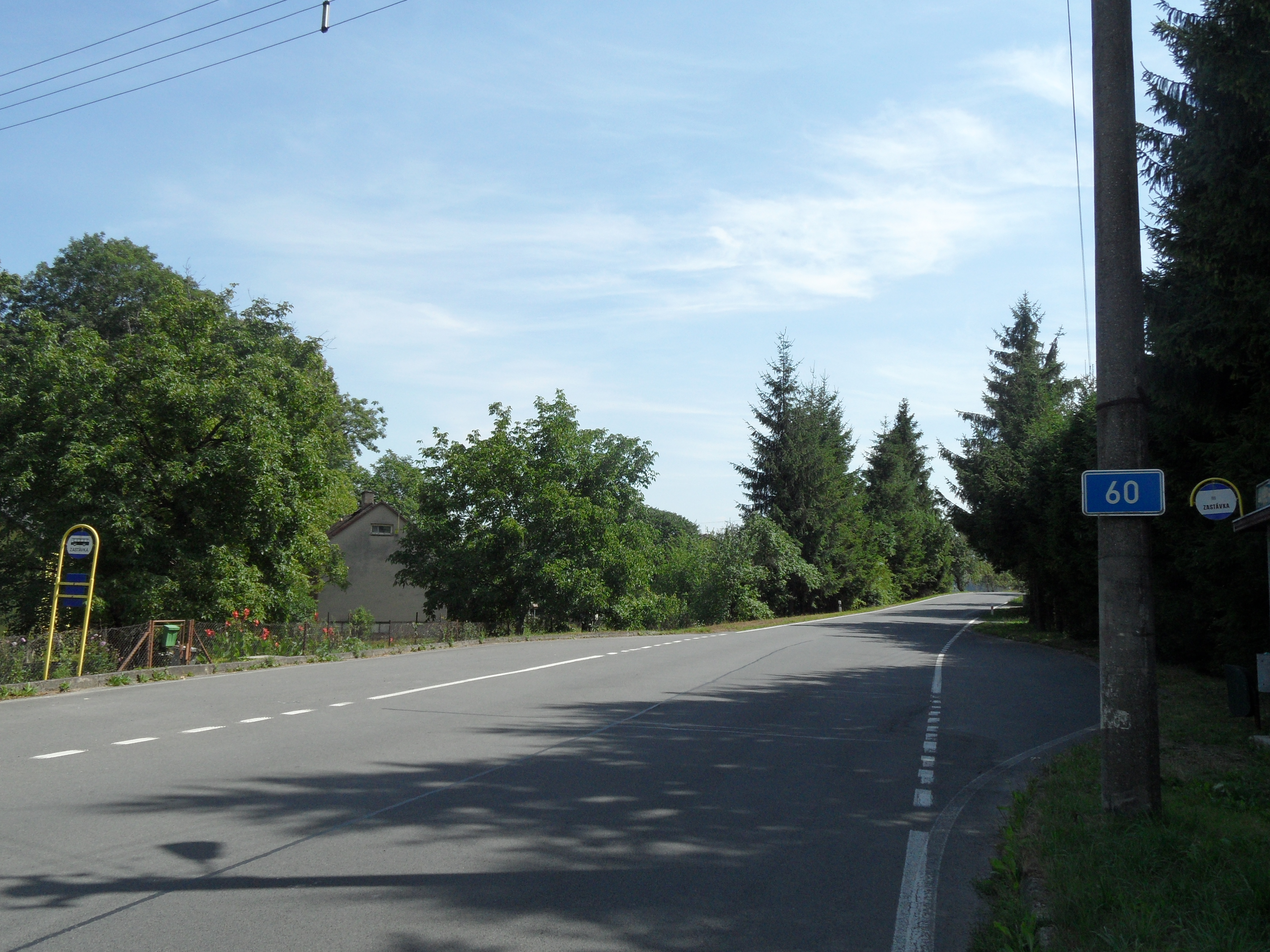 Road I/60. Bergov, Road near Bus Stop, Direction to Žulová, Jeseník (about Kilometr 21). Jeseník District, the Czech Republic.